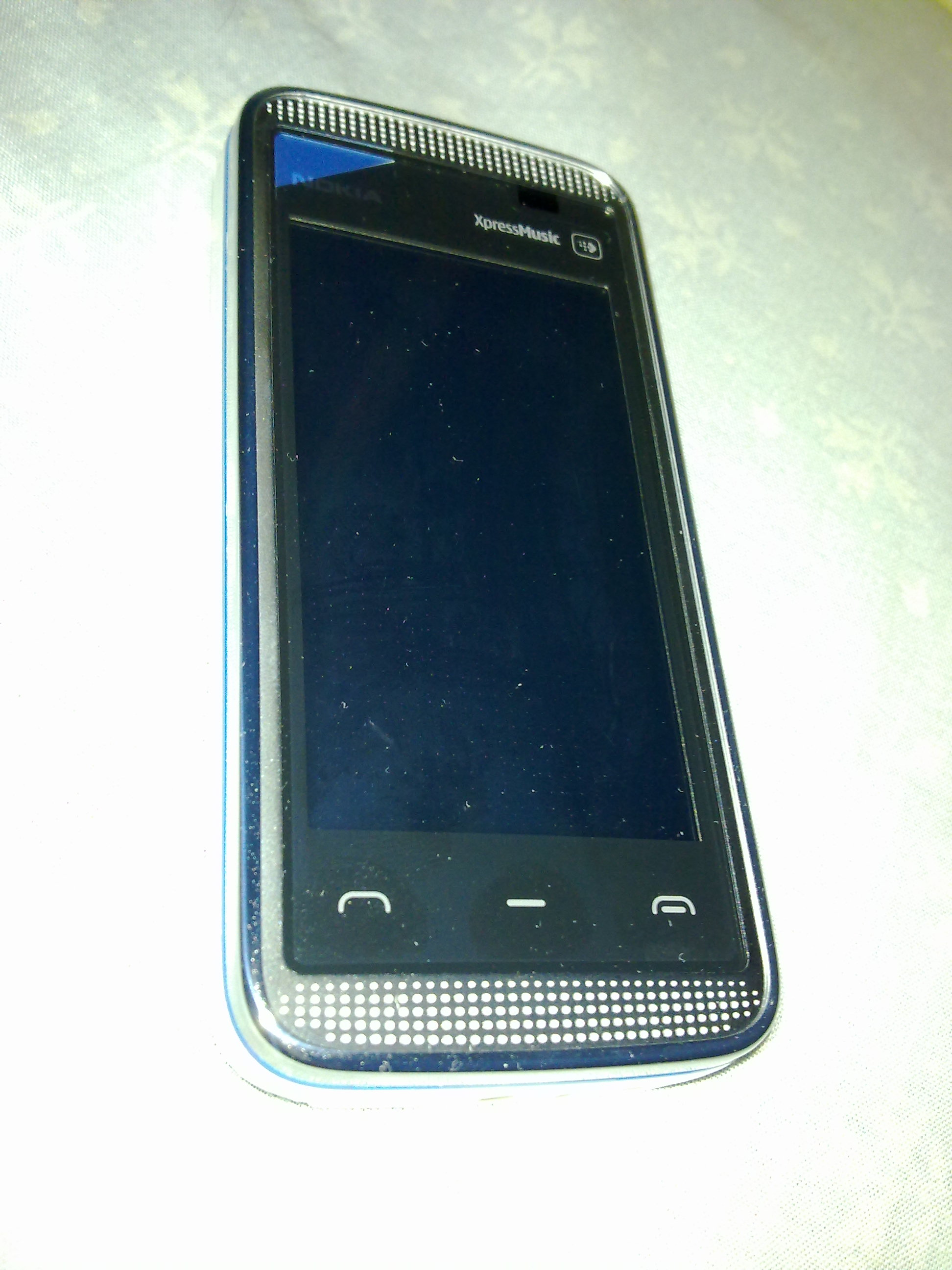 The Nokia 5530